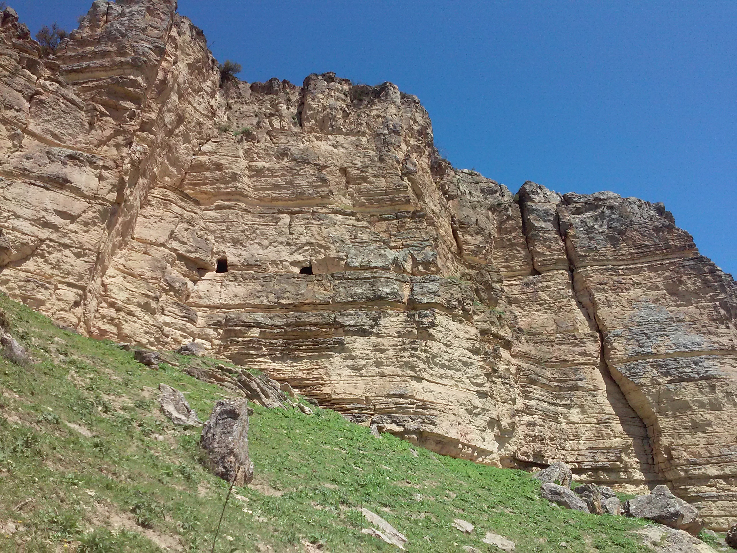 These caves named Qazanfar with the name of the same mountain in the Sundu village. This village located in the Gobustan district of the Azerbaijan Republic. These caves belongs to medieval period.